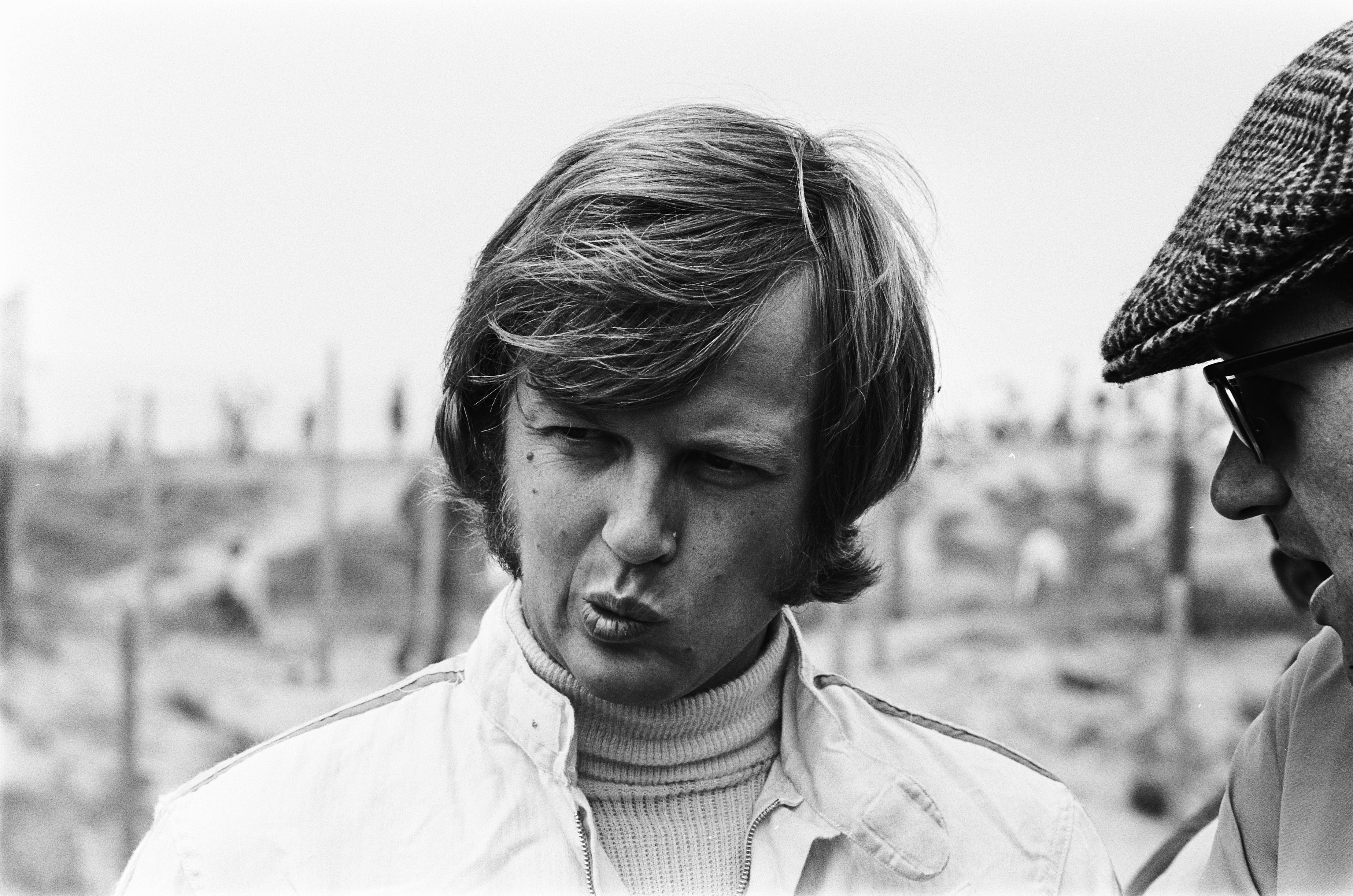 Ronnie Peterson talks with his Antique Automobiles team boss, Colin Crabbe, at the 1970 Dutch Grand Prix.